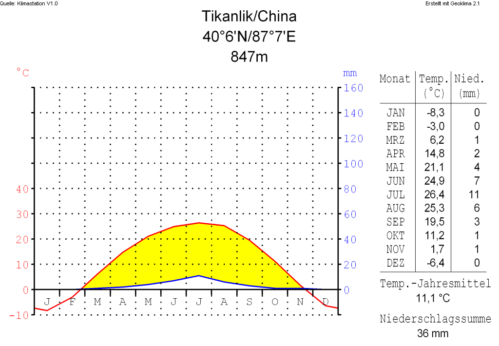 climate chart in the format by Walther and Lieth, metric, °Celsisus and millimeters, made with Geoklima 2.1